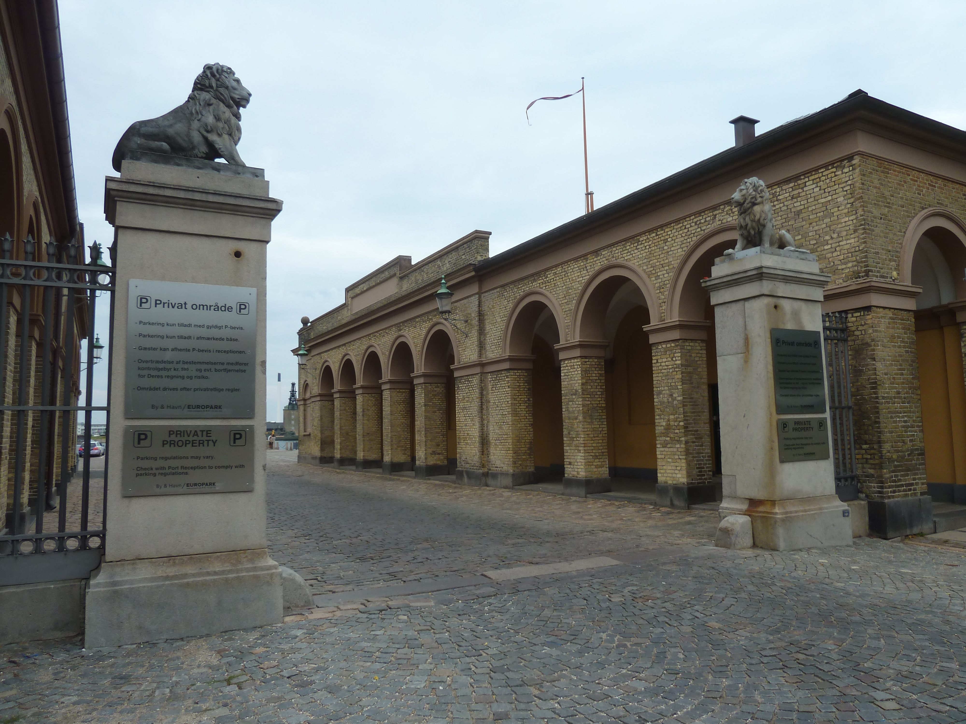 The former main entrance to the Nordre Toldbod area in Copenhagen, Denmark